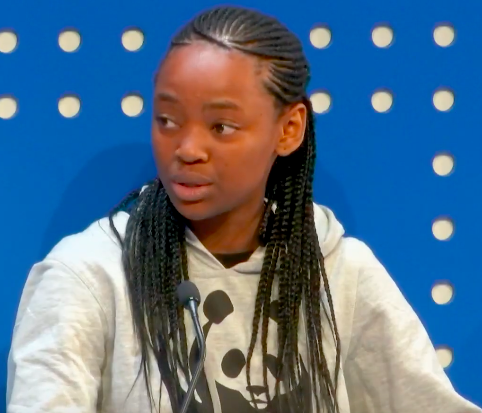 Ayakha Melithafa at DAVOS World Economic Forum in 2020